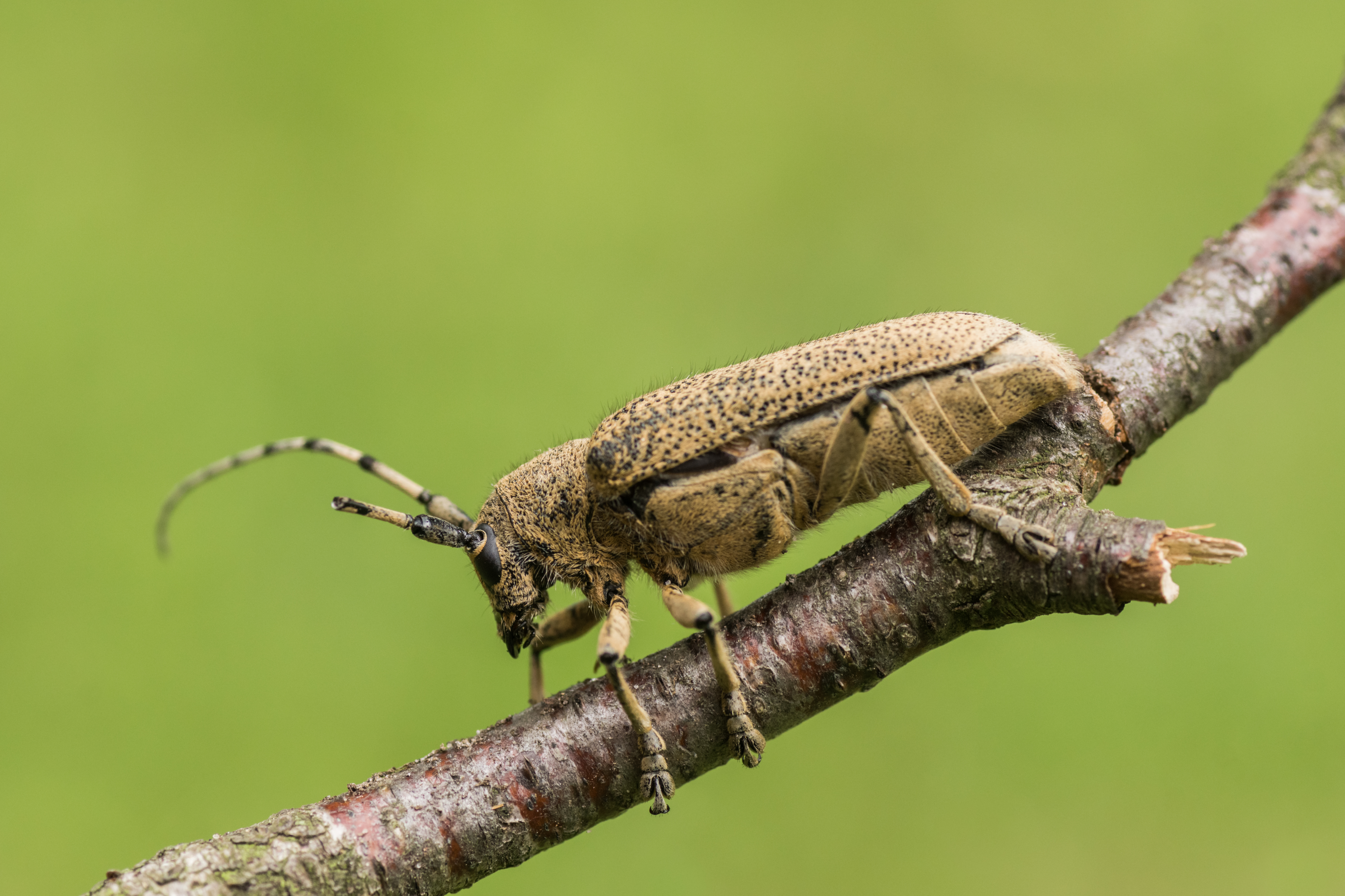 Saperda carcharias, a species of longhorn beetle